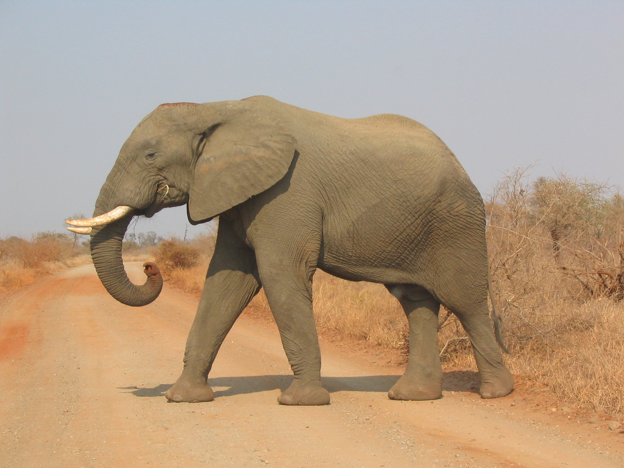 Savanna elephant "Loxodonta africana" in Kruger National Park, South Africa.